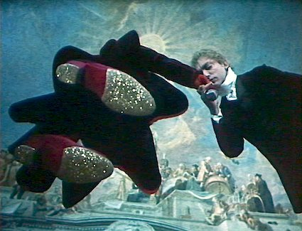 Narcissus meets the Archbishop of Eger